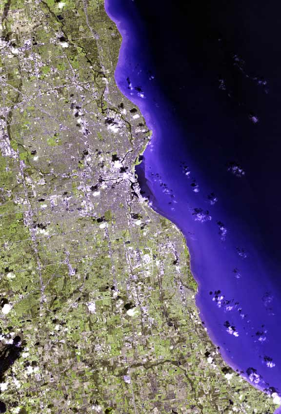 The raw satellite imagery shown in these images was obtain from NASA and/or the US Geological Survey. Post-processing and production by